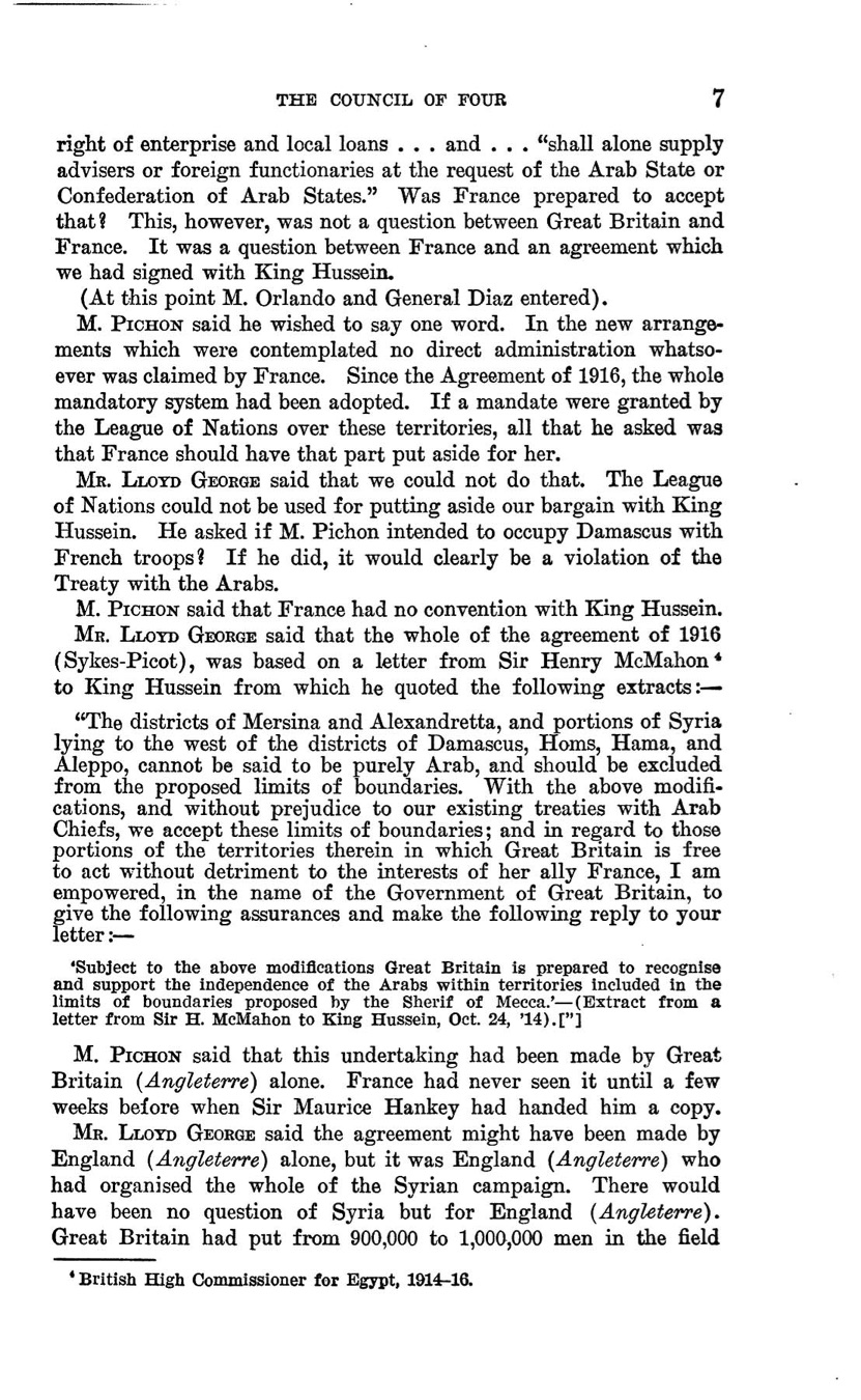 Minutes of the Paris Peace Conference 1919 Council of the Four p7